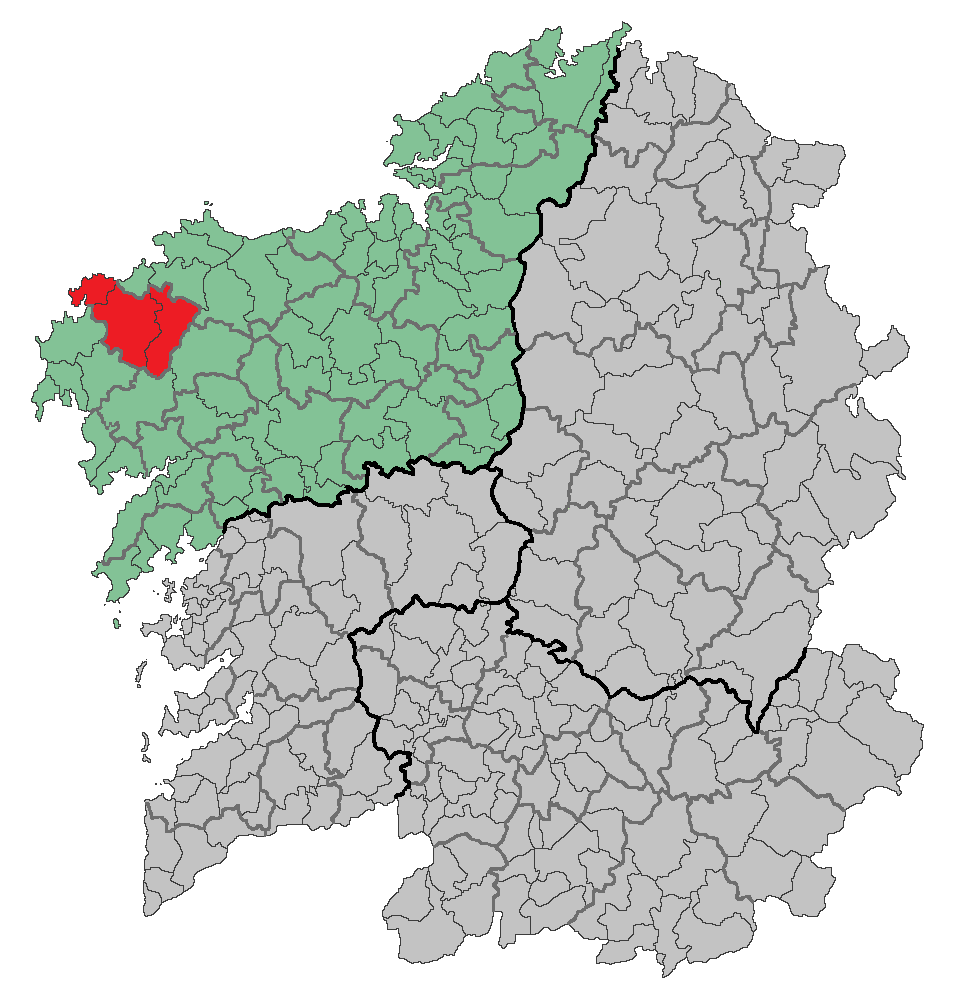 Region of Galicia (Spain) Based in: Image:Location of Camariñas.png Source: Designed by Leoplus. Original picture, designed by Caiser over a work made by Alyssalover.